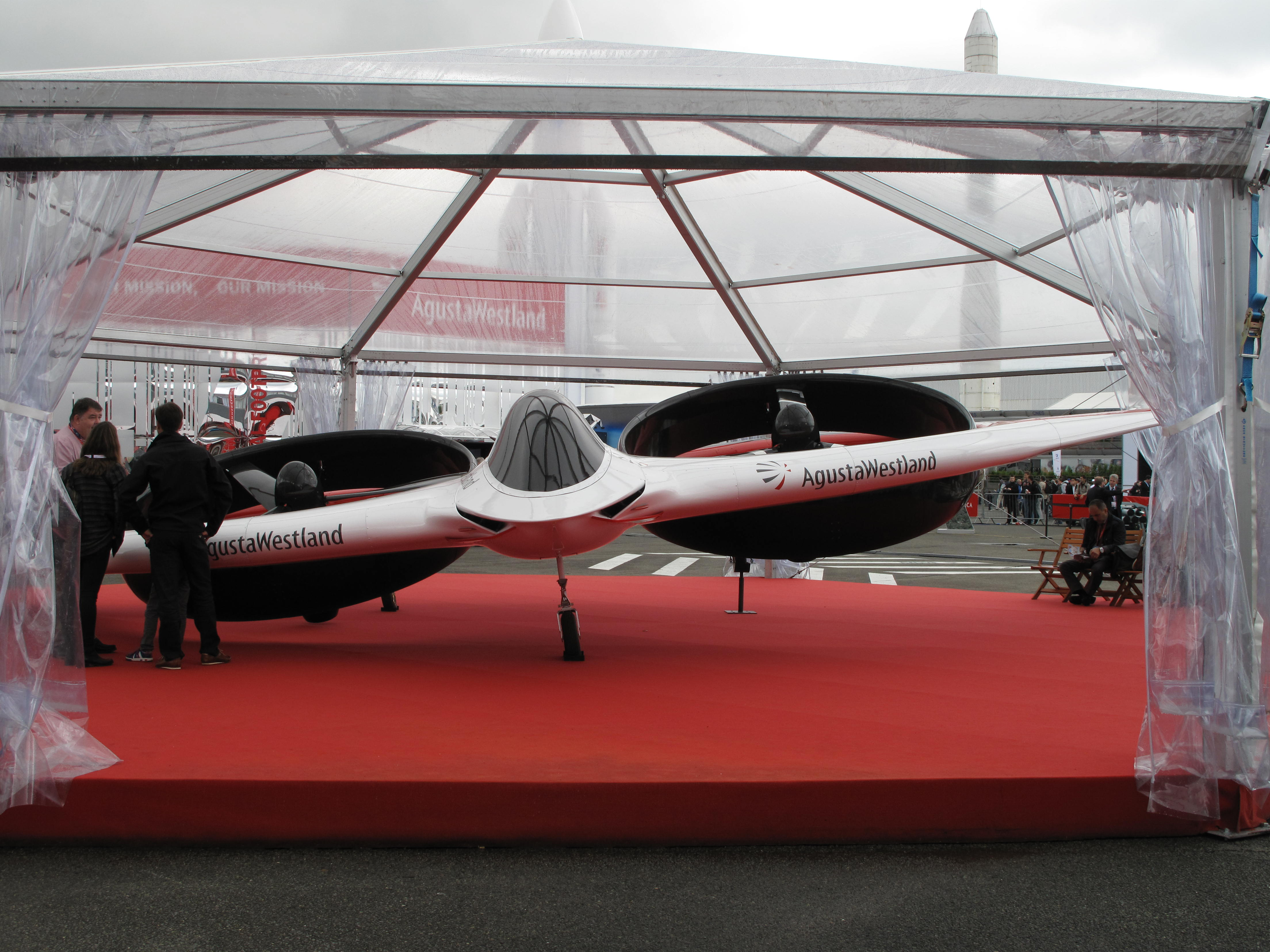 Experimental plane Project Zero of the Italian company AgustaWestland at the Paris Air Show 2013